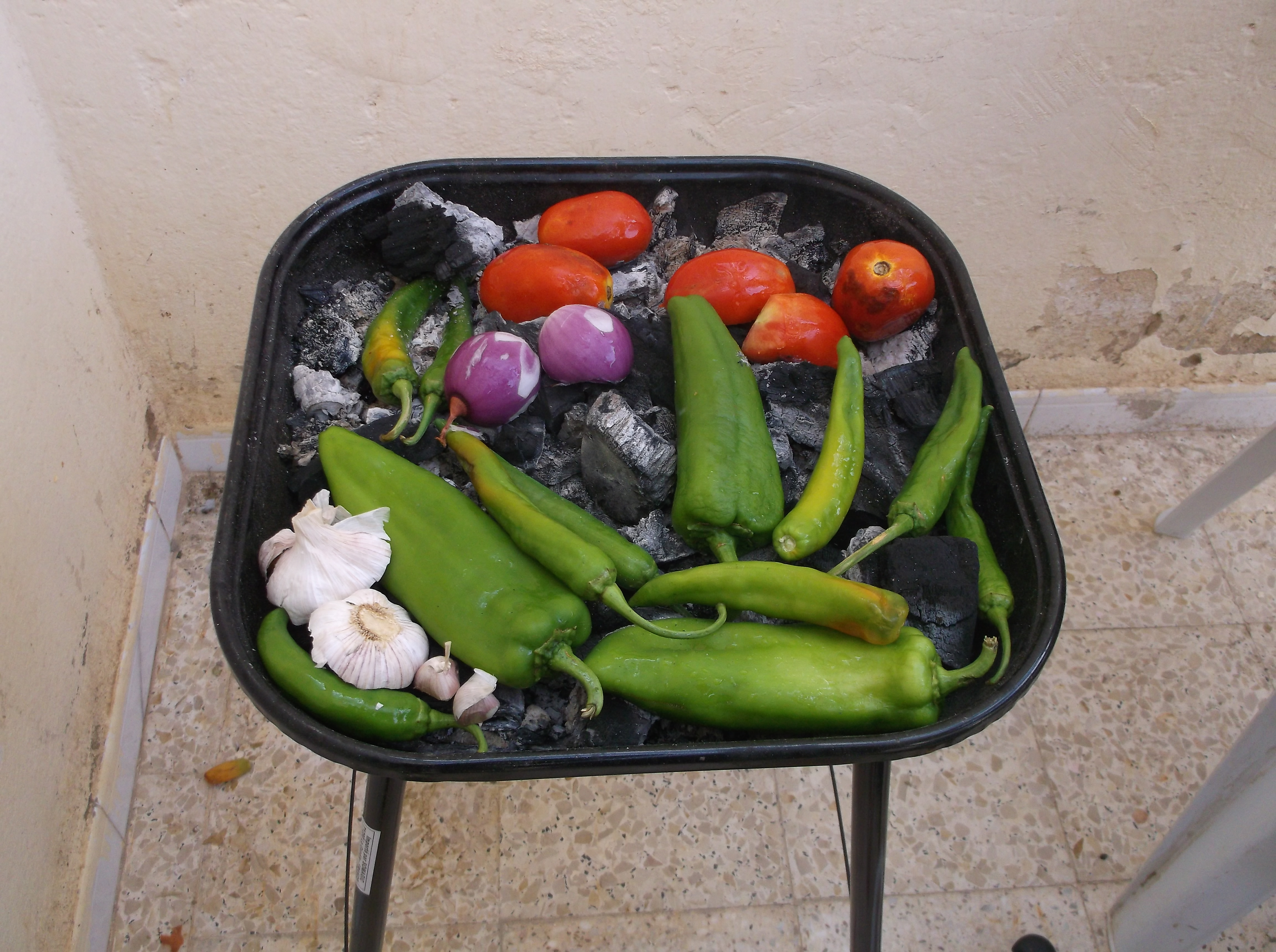 Prepare Tunisian grilled salad This is an image of food from Tunisia